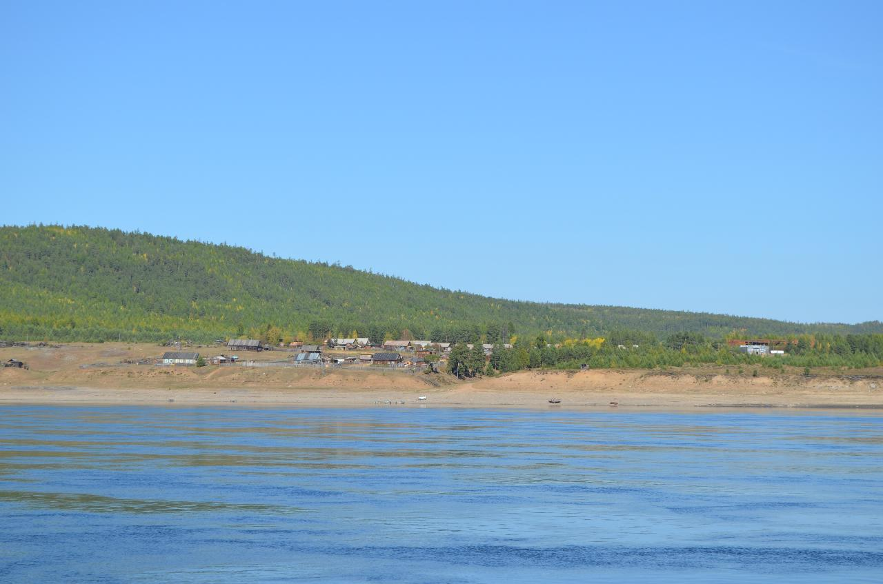 This photos are made during cruise Yakutsk — Lеnskiye Shchyoki, Lena Cheeks — Yakutsk (with arrival in Mirny), 05.09−17.09.2016